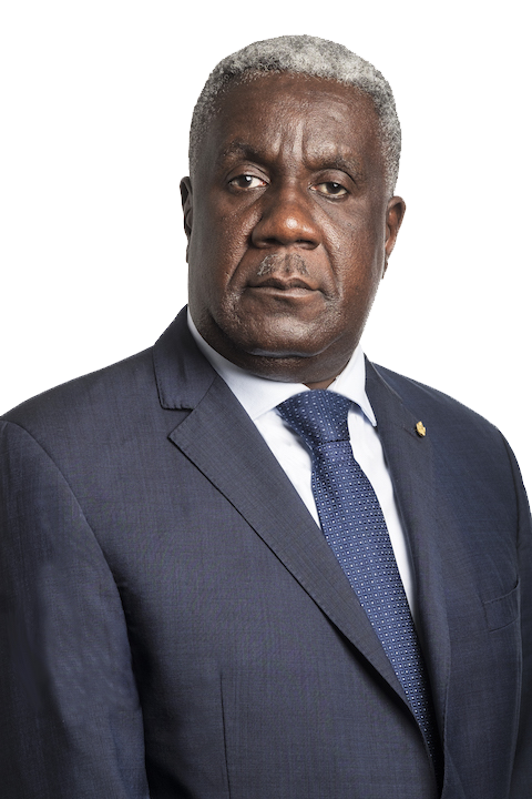 Frédéric Boyenga Bofala, président de l'UNIR MN